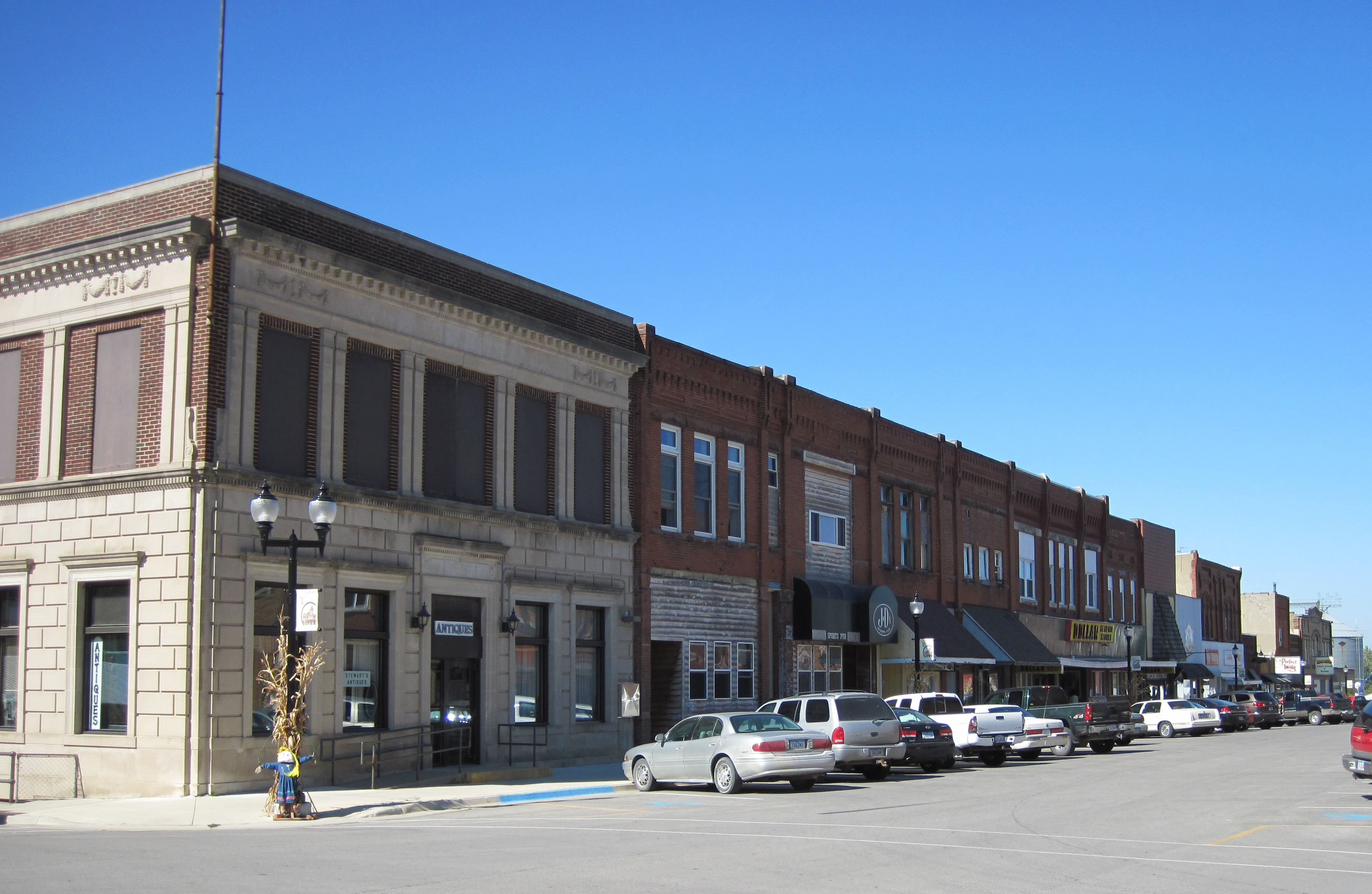 downtown Parkersburg. This area was not hit by the tornado. Bill Whittaker (talk) 17:30, 1 October 2009 (UTC)